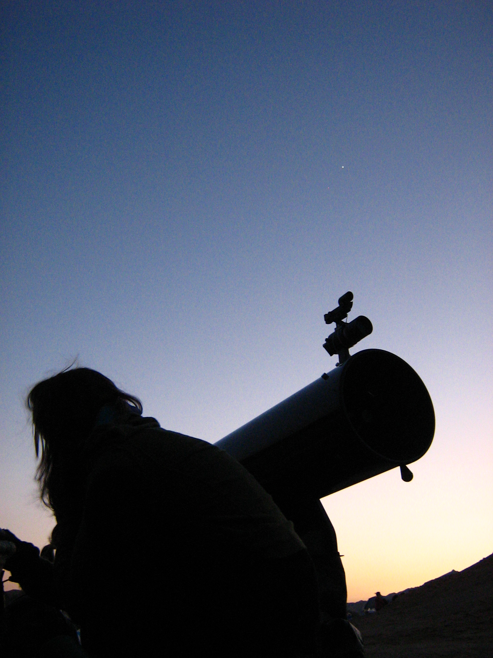 Amateur astronomer gets ready to a night of stargazing in the Negev desert, Israel, with her mighty Dobsonian telescope